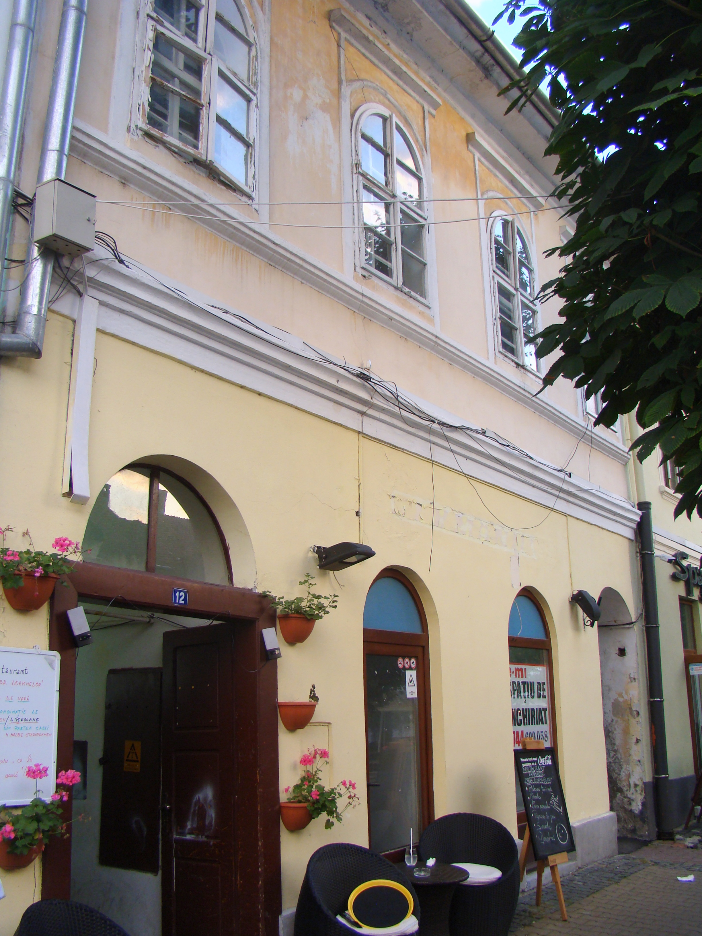 House, historic monument, in Bistrița, Liviu Rebreanu street 12